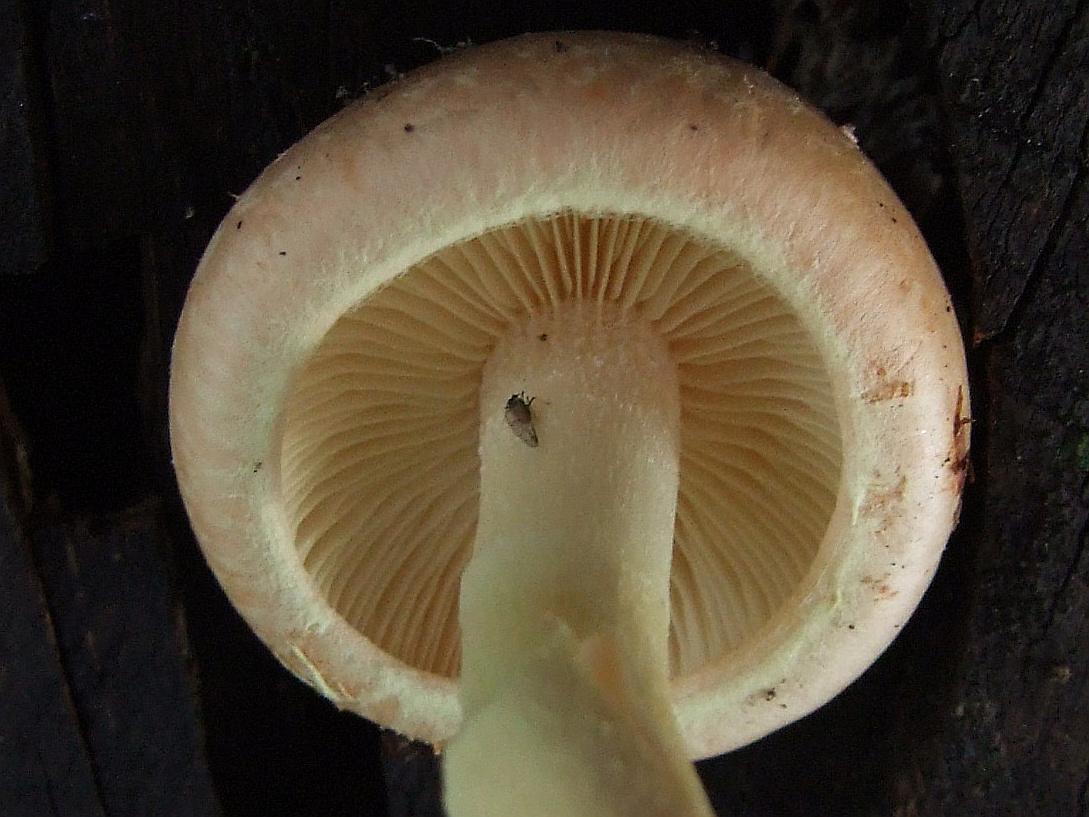 Hypholoma lateritium